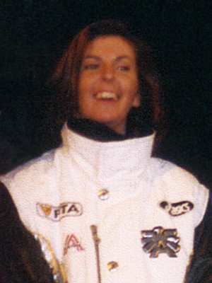 Austrian alpine skier Anita Wachter during the public draw for the second slalom in Semmering (Austria) on December 29th, 1996.